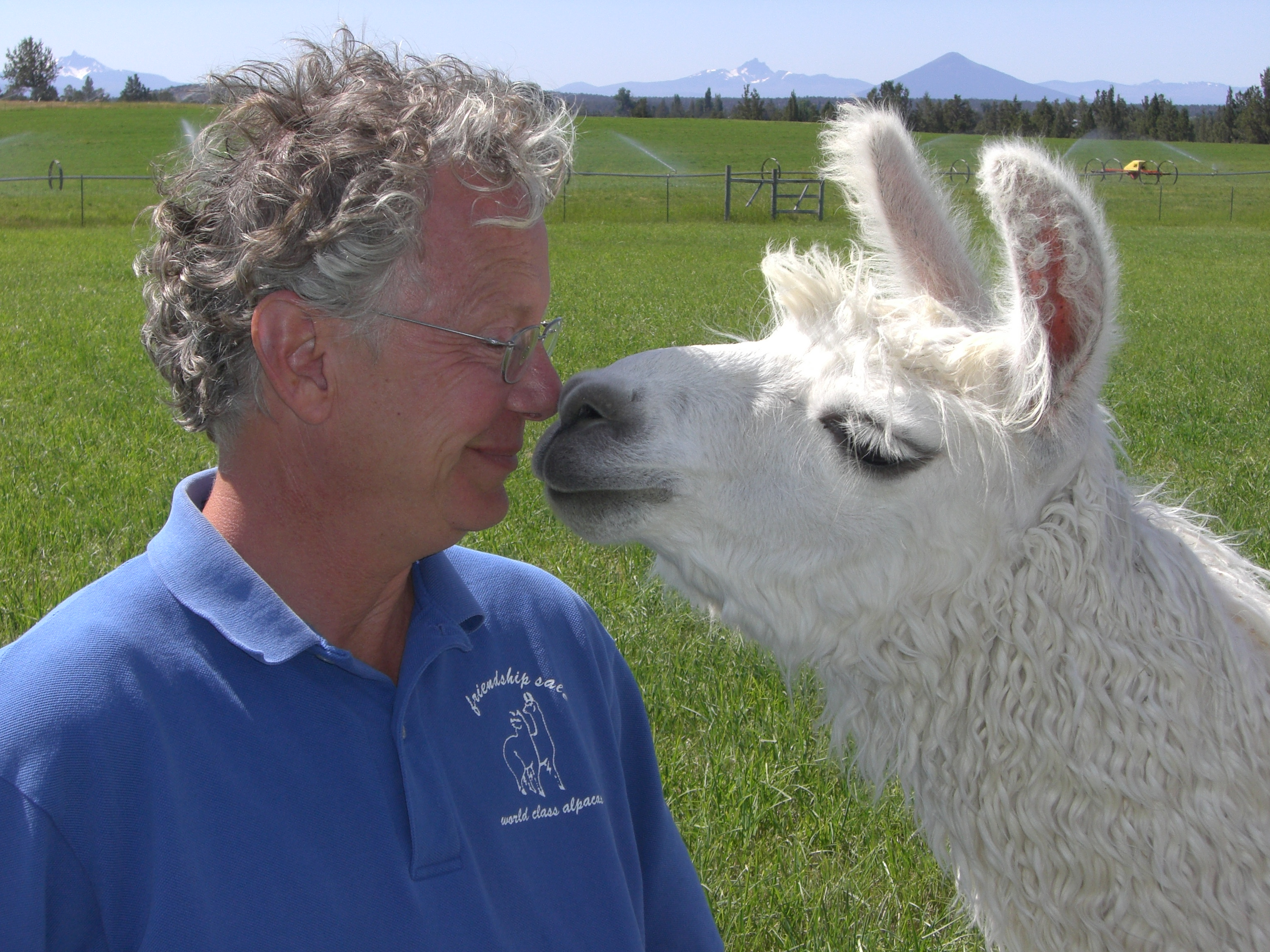 Andy Tillman at his llama ranch near Bend, Oregon (2008)